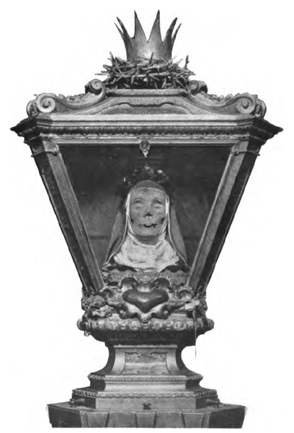 Head of St. Catherine of Siena